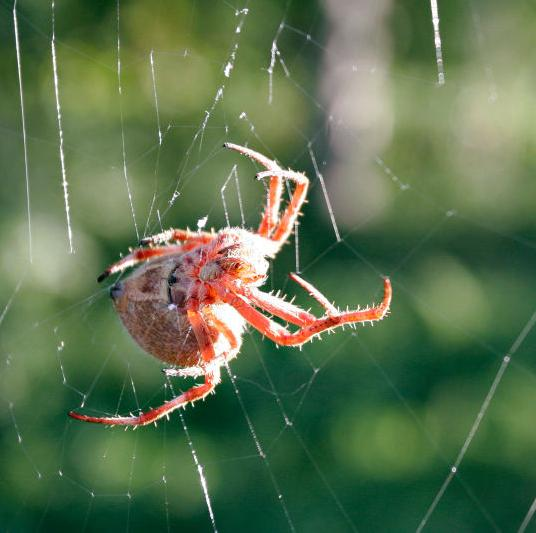 Orb Weaver Spider (Eriophora transmarina) daylight